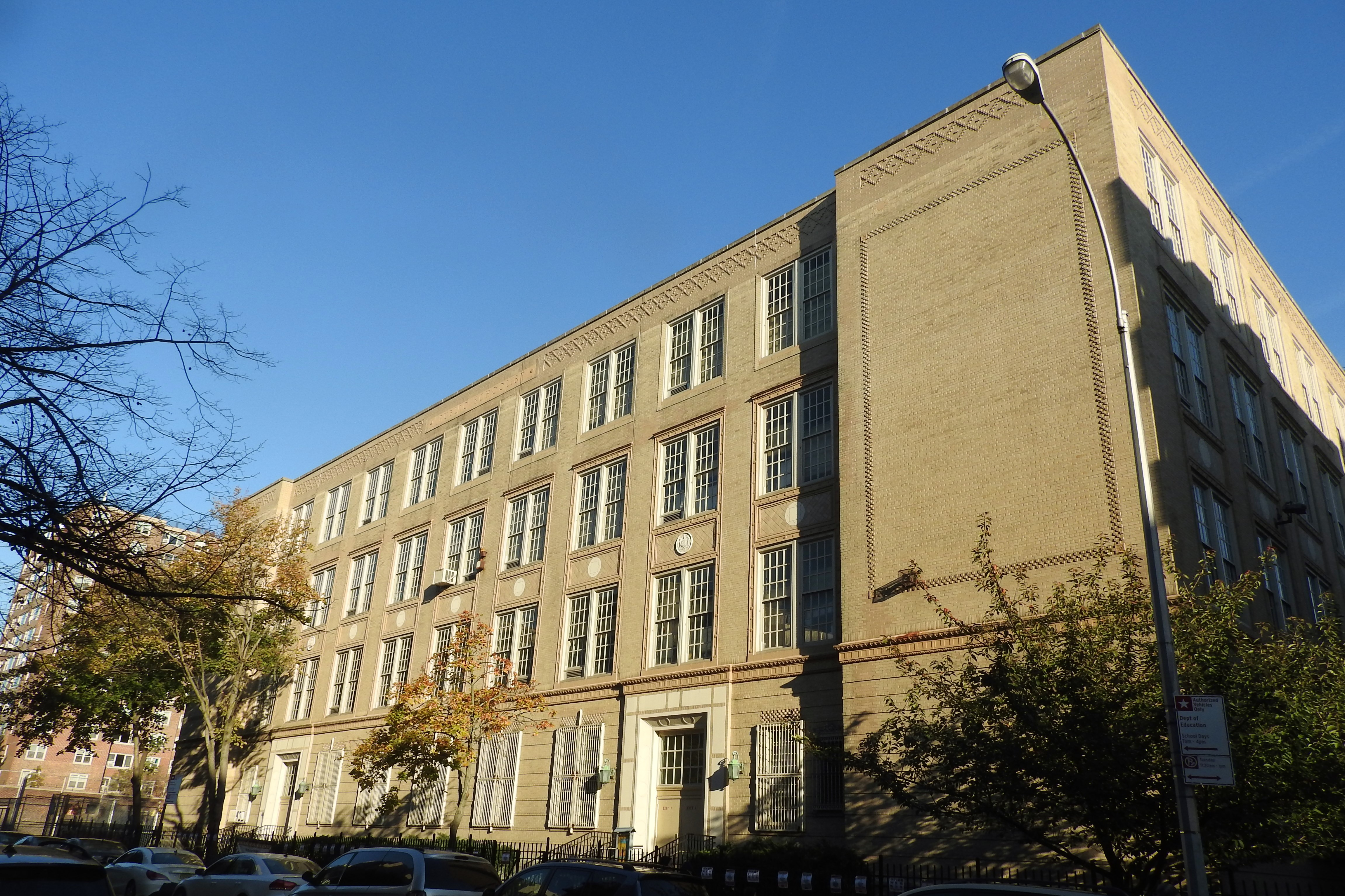 Looking east across Cabrini Blvd at school on a sunny day.